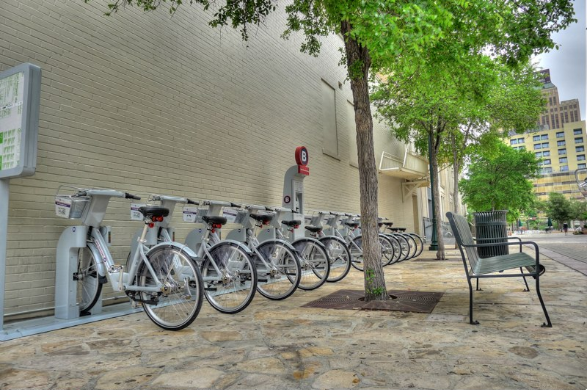 A 10 dock station in Main Plaza.